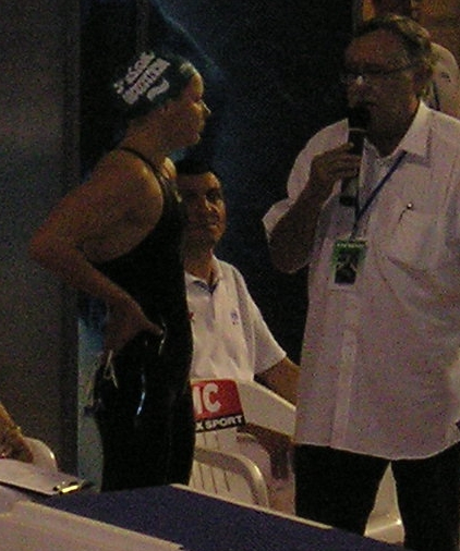 French Swimming Championships, Montpellier, 26 April 2009 afternoon: after the 100 meters breaststroke Women finale, official presenter Michel Salles interviewed the new champion and recordwoman of France, Fanny Babou.